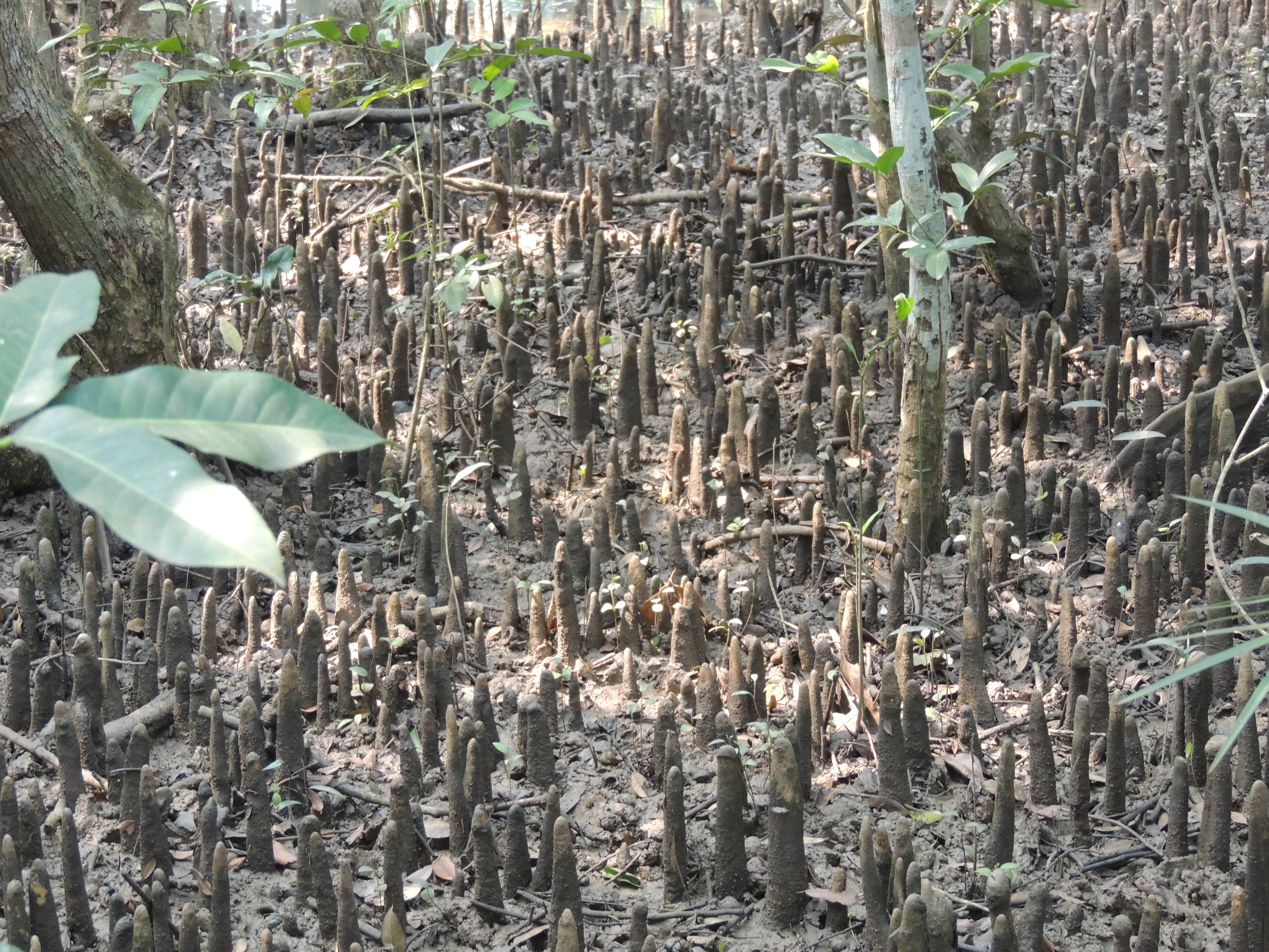 Arial roots of Mangrove Plants.These roots help to reduce the damages of Tsunami effect. It is in Bhitarkanika National park.